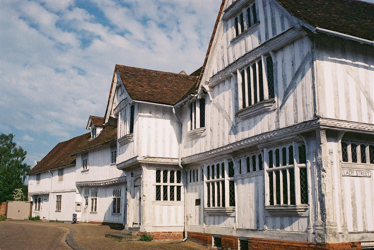 The Guildhall in Lavenham